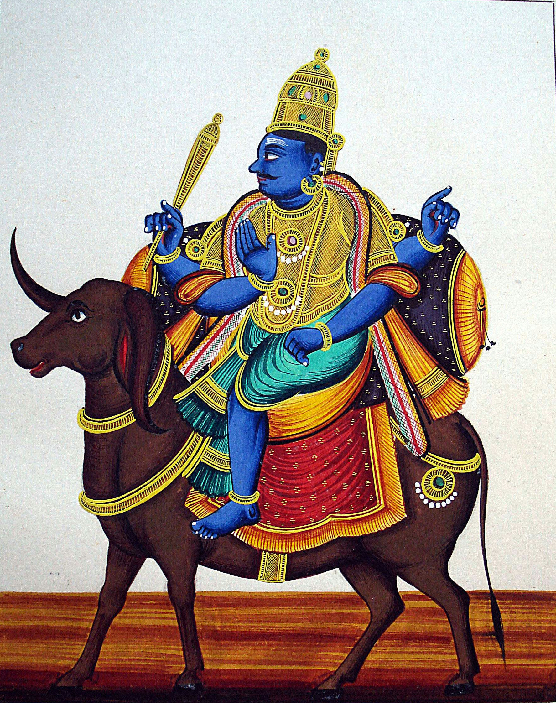 Gouache painting on paper from an album of eighty-two paintings of Hindu deities. Four-armed and dark-complexioned Yama rides on his bejewelled and caparisoned buffalo. In his upper right hand is the danda (staff). His upper left is in suchi mudra, his lower right is in abhaya mudra, and his lower left is by his waist.